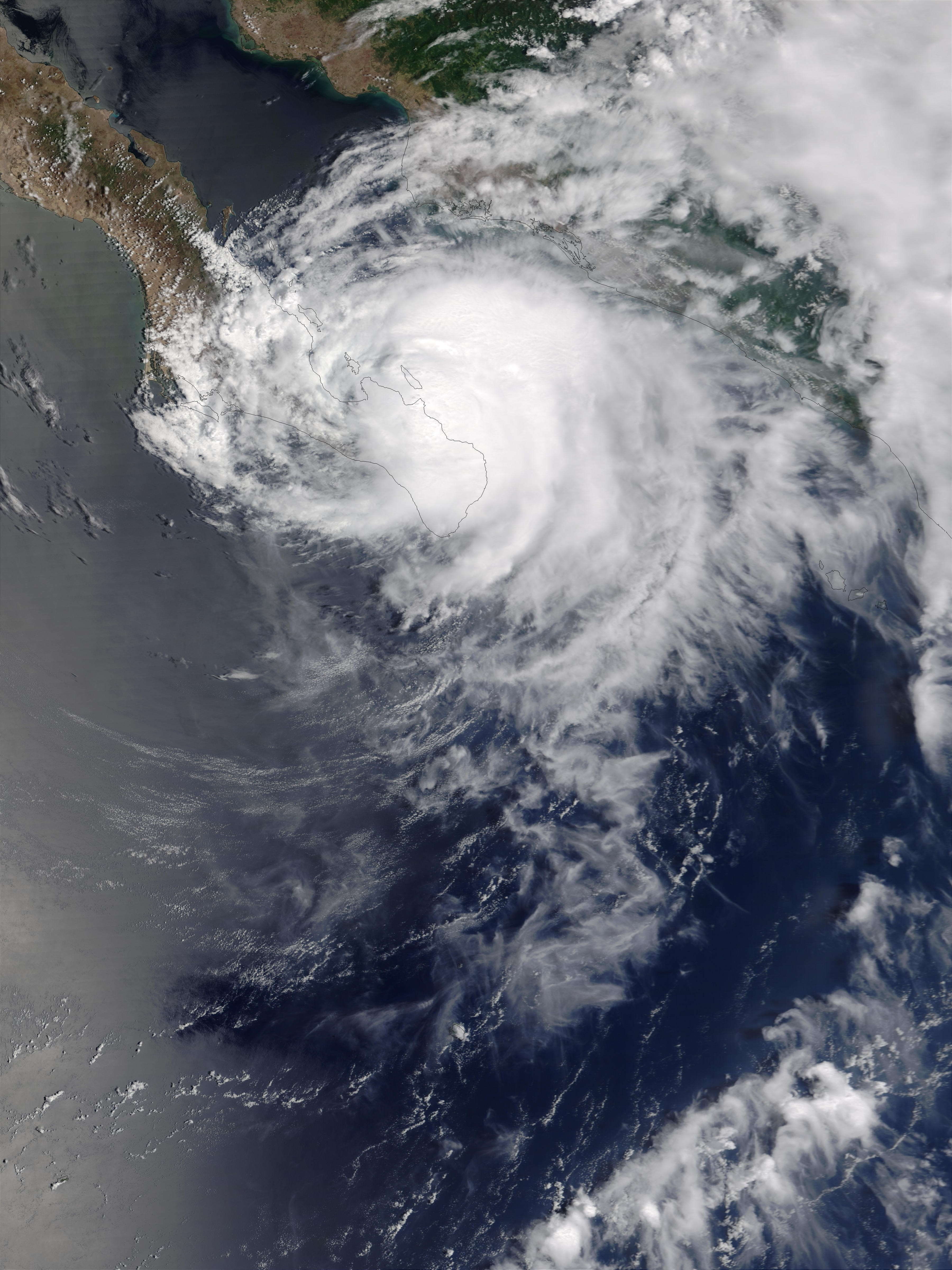 The MODIS instrument onboard NASA's Terra spacecraft captured this true-color image of Hurricane Ignacio at 11:25 a.m. PDT on August 25, 2003. At the time of this image, Ignacio was packing maximum sustained winds of 75 mph (125 km/hr) with slightly higher gusts. The storm was feeling the effects of the land mass of Baja, California as evidenced by the cloud pattern on the western side of the storm becoming less organized.